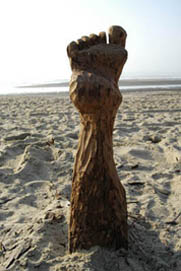 Beach sculpture by Merijn Tinga of Kunst Uitschot Team.